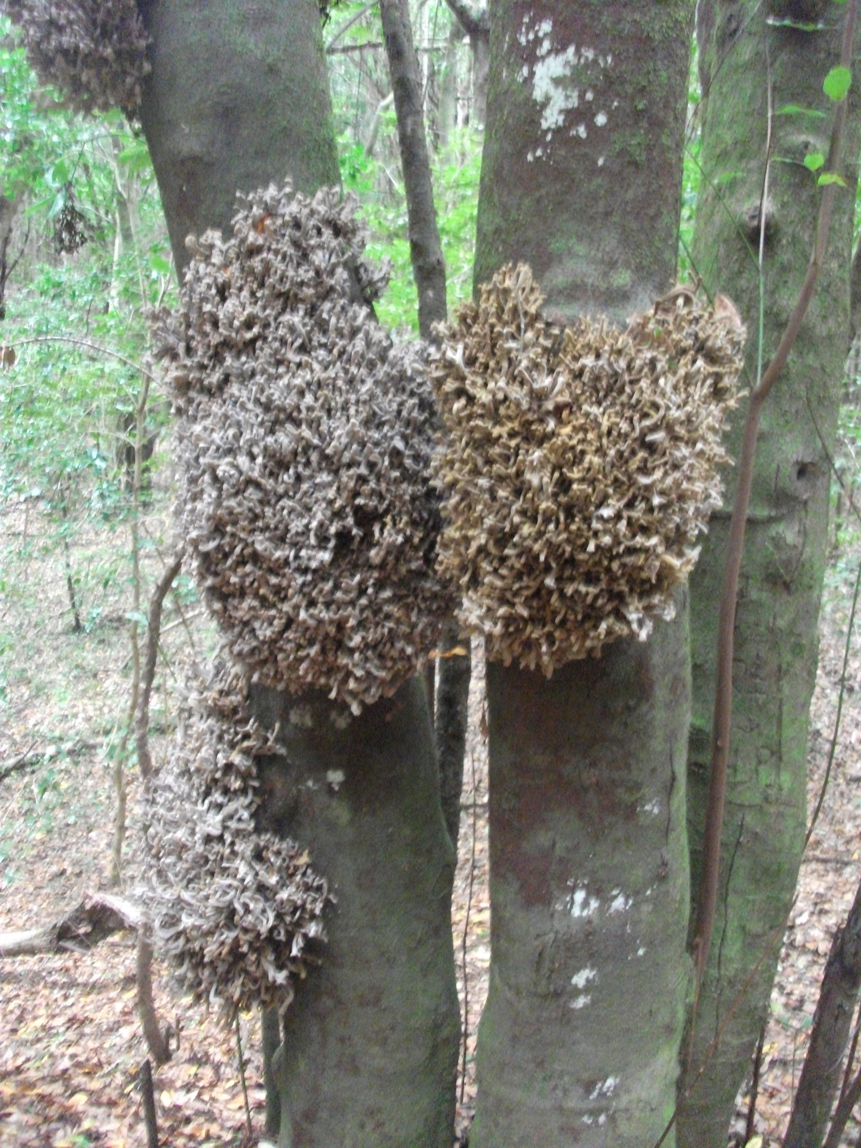 Laurel parasitado por el hongo "Madre de loro" (Laurobasidium lauri). Foto tomada en Tegueste, Tenerife.